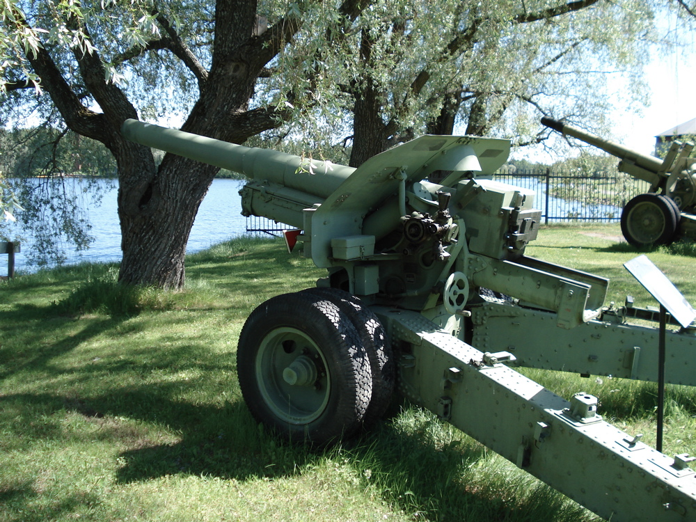 Soviet 152mm mm M-10 Mark 1938 howitzer, displayed in Hämeenlinna Artillery Museum. Photo taken on June 18, 2006. Source: Photo by me, User:Balcer.